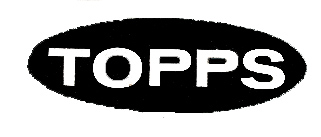 Topps Logo